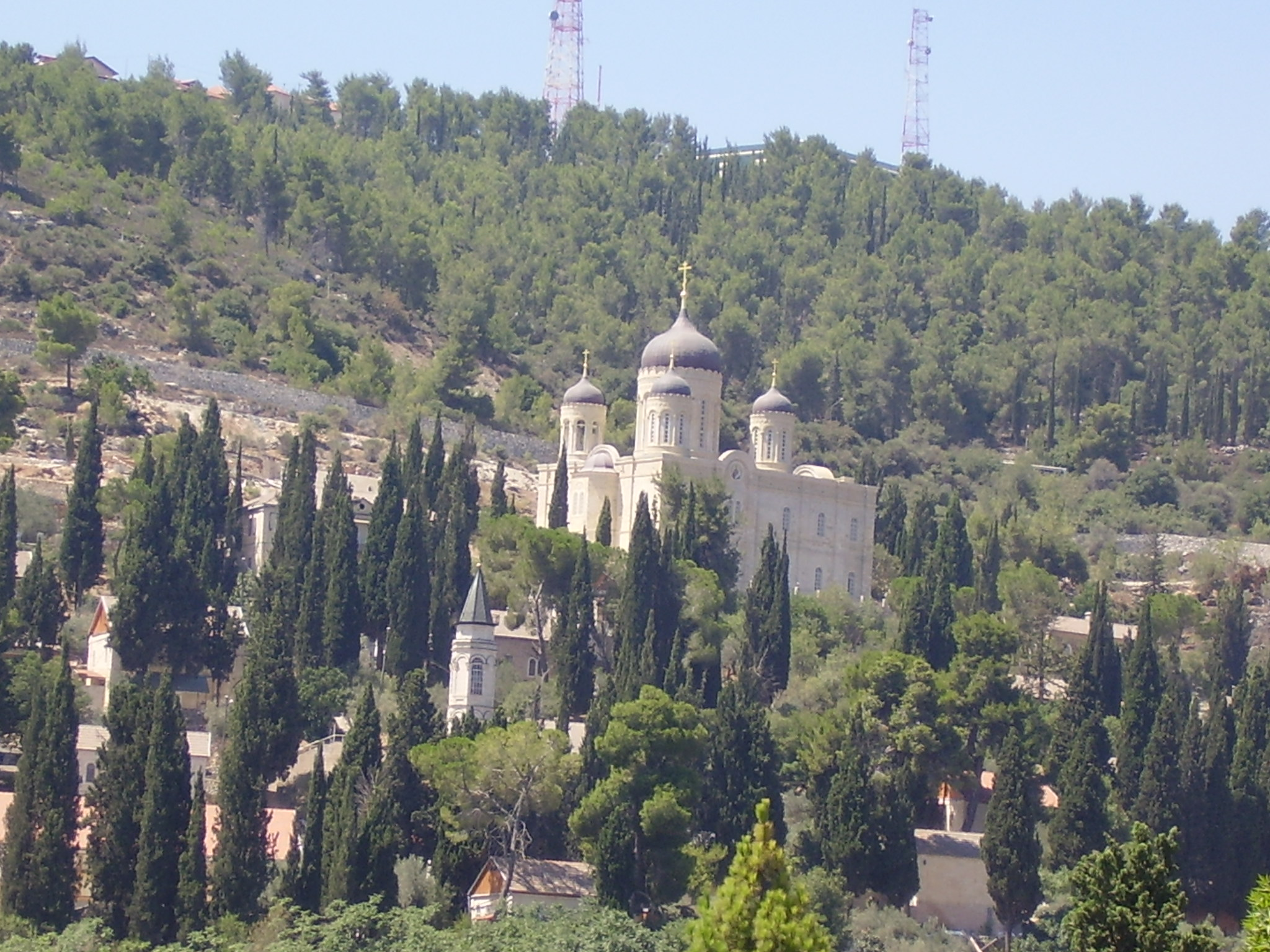 Russian church in Ein Karem, Jerusalem